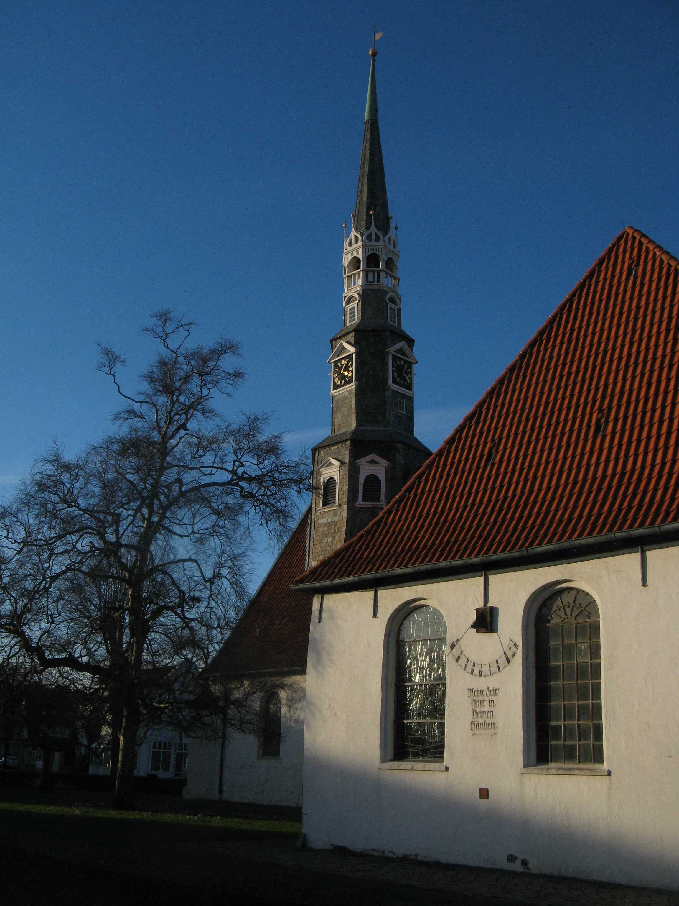 Saint George church, Heide, Holstein, Germany